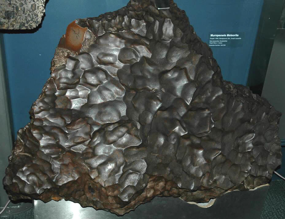 Murnpeowie Meteorite - this spectacular, 2520 pound iron meteorite was found in the South Australian Outback in 1909. The mass has a well-preserved, dark-colored, outer surface with nice regmaglypts (surface cavities). Iron meteorites exposed at Earth's surface oxidize & rust relatively quickly. Given the fresh nature of Murnpeowie, it's been estimated that it fell to Earth within five years of it being found. This rock is an octahedrite, dominated by kamacite & taenite. Sample material cut away for analysis (see dark orangish-colored area at upper left of meteorite) has shown that the Widmanstätten structure commonly seen in octahedrites is not well preserved in Murnpeowie. This has been inferred to be evidence for a significant heating event at some time in the rock's history. (SAM Met 30A, South Australian Museum, Adelaide, Australia) Location: South Australian Outback between Lake Callabonna and Lake Blanche, NE by E of Mt. Hopeless, near the Strzelecki Track, eastern South Australia.